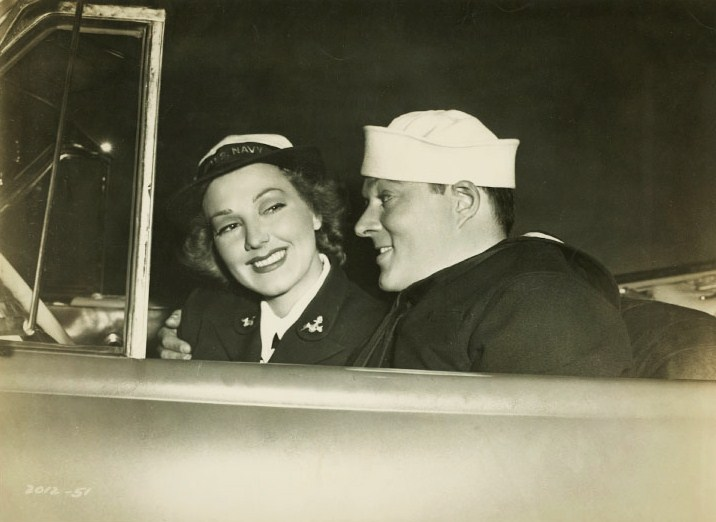 Jean Parker & William Henry (not Robert Lowery) in The Navy Way - publicity still (cropped)